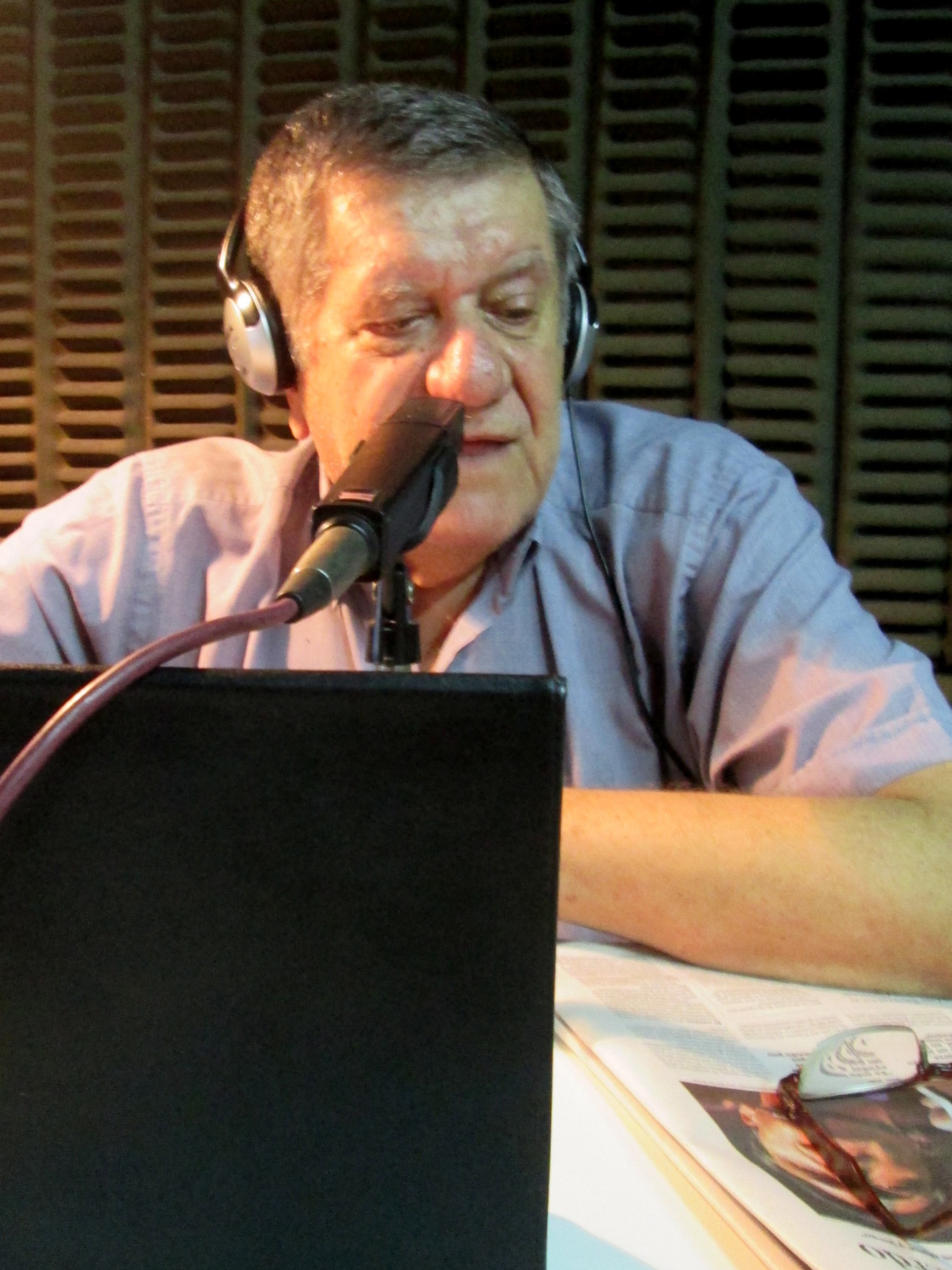 Argentine journalist Coco López (1942-) on his radio show Rompiendo los cocos (‘breaking coconuts’), in Rosario, Argentina.